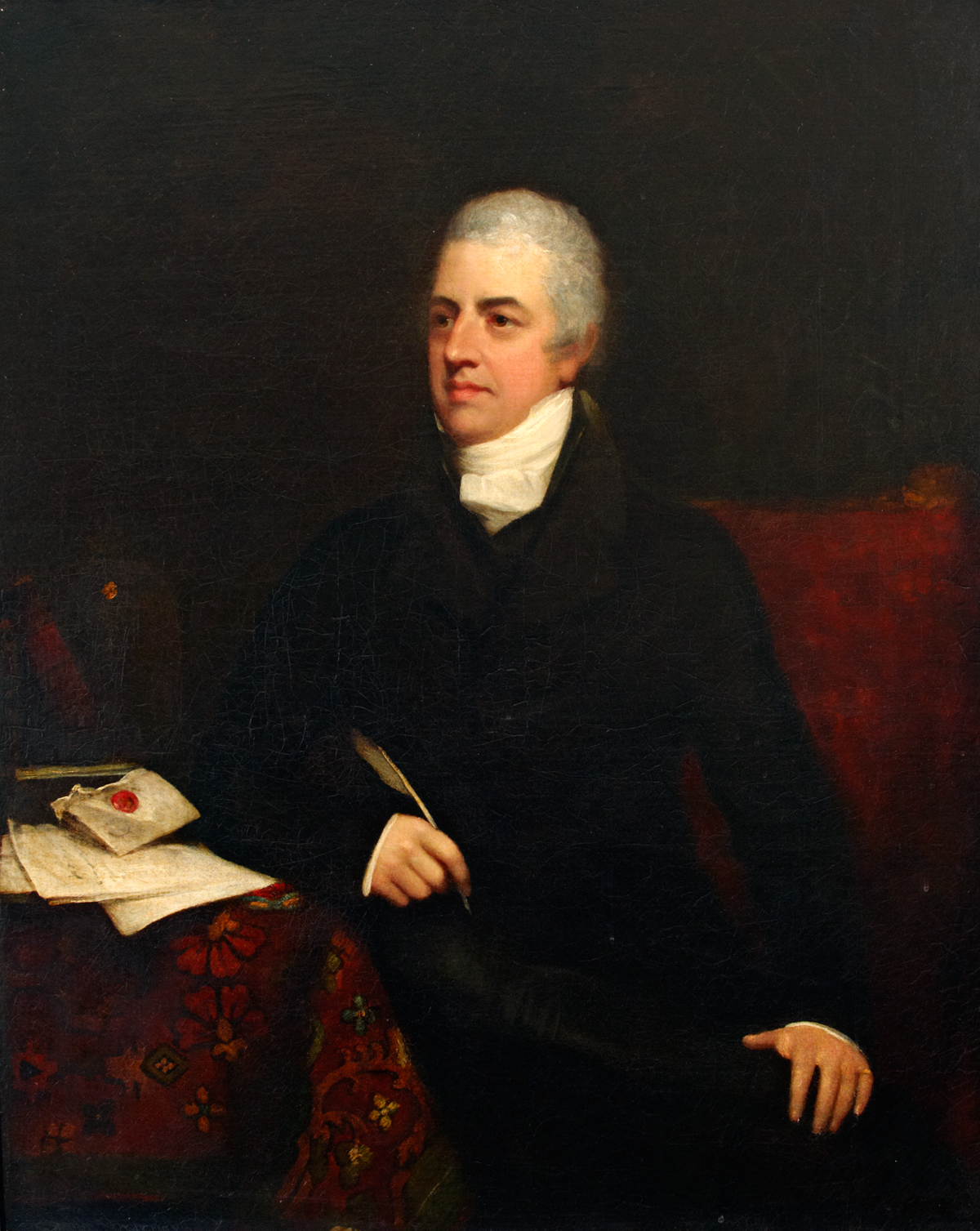 Portrait of Honoratus Leigh Thomas (1769–1846), Welsh surgeon.